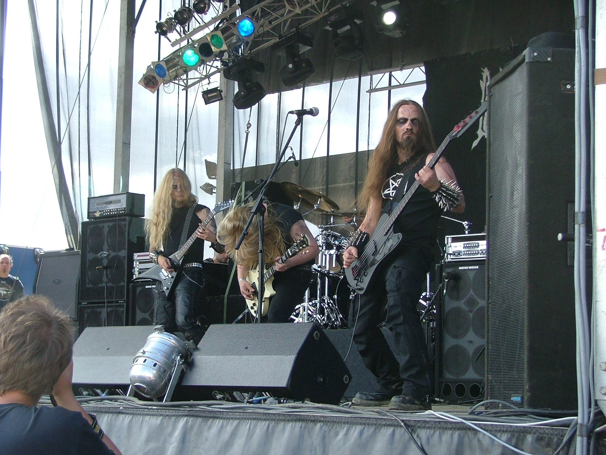 Norwegian black metal band Koldbrann